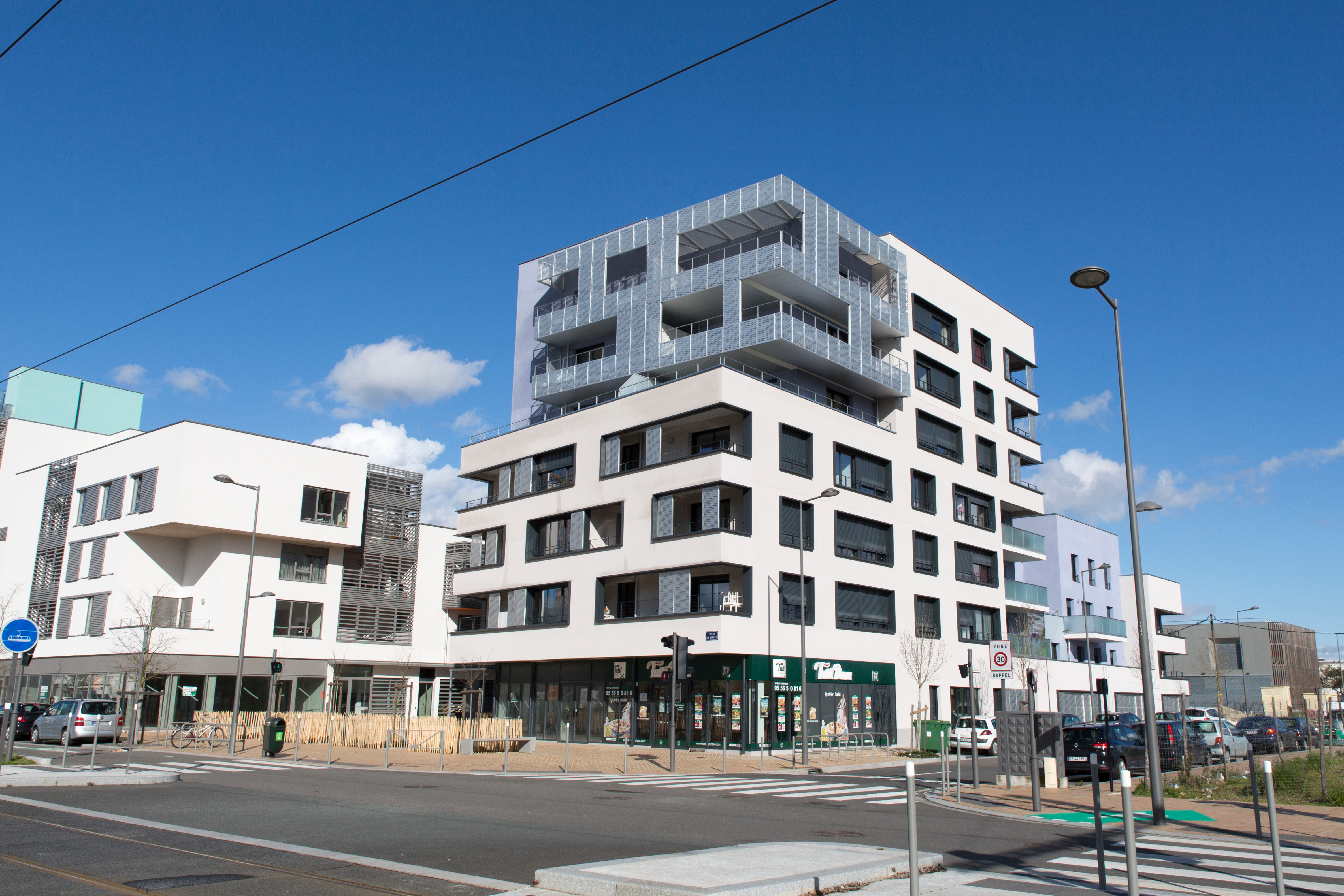 Quartier Ginko